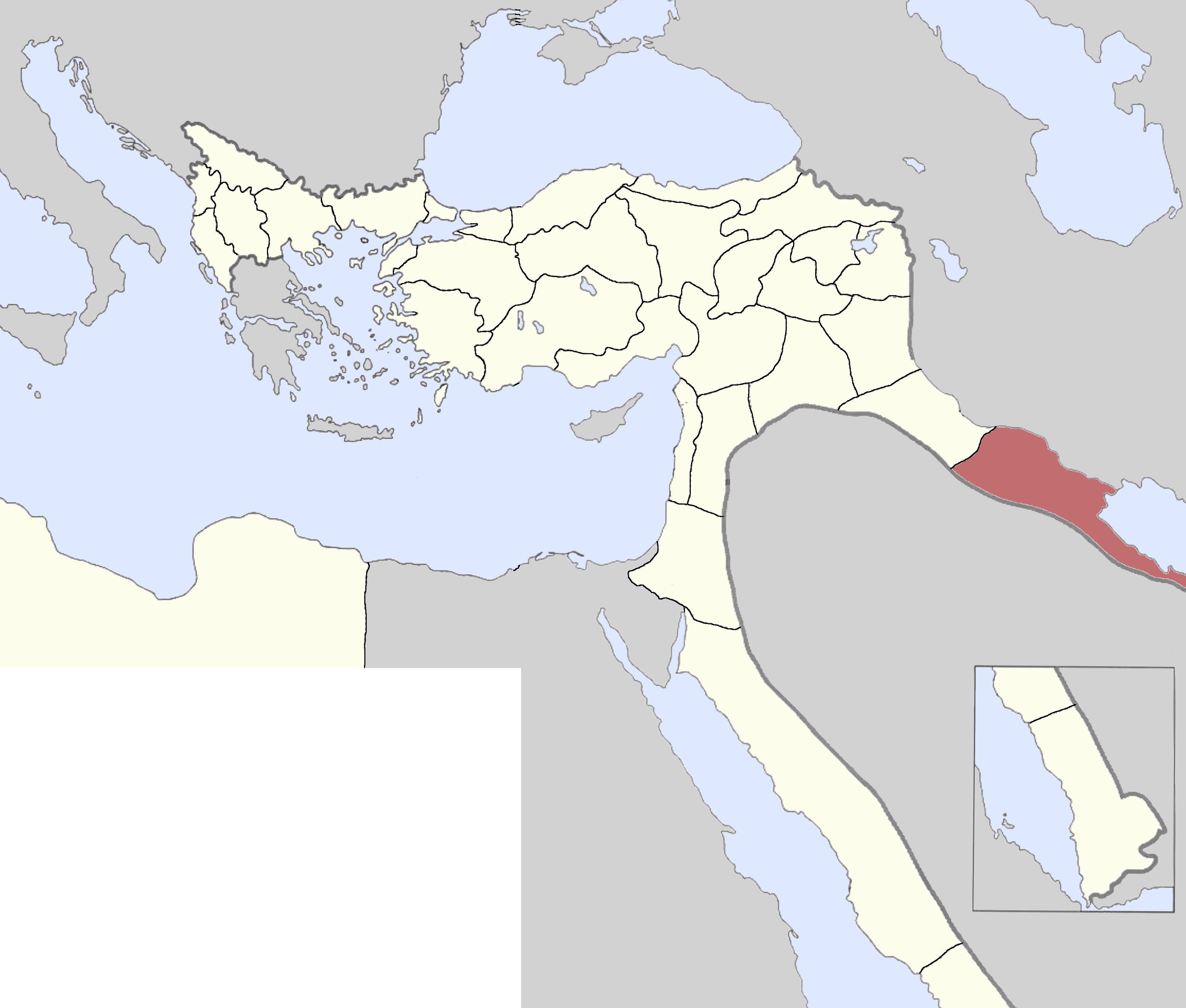 XY Vilayet, Ottoman Empire (1900). Source: Empire, Islam, and Politics of Difference: Ottoman Rule in Yemen, 1849-1919 at Google Books By Thomas Kuehn